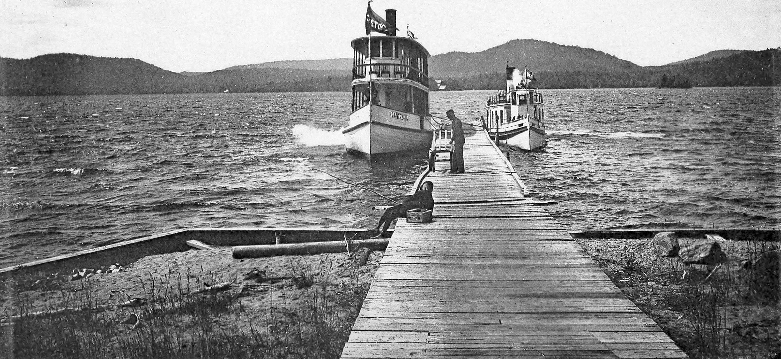 Fourth Lake, Fulton Chain of Lakes, Adirondack Park, New York. Title: Annual report of the Forest Commission of the State of New York Identifier: annualreportoffo1894newy Year: 1885 (1880s) Authors: New York (State). Forest Commission Subjects: Forests and forestry; Public lands Publisher: Albany : The Commission Text Appearing Before Image: ' Text Appearing After Image: '